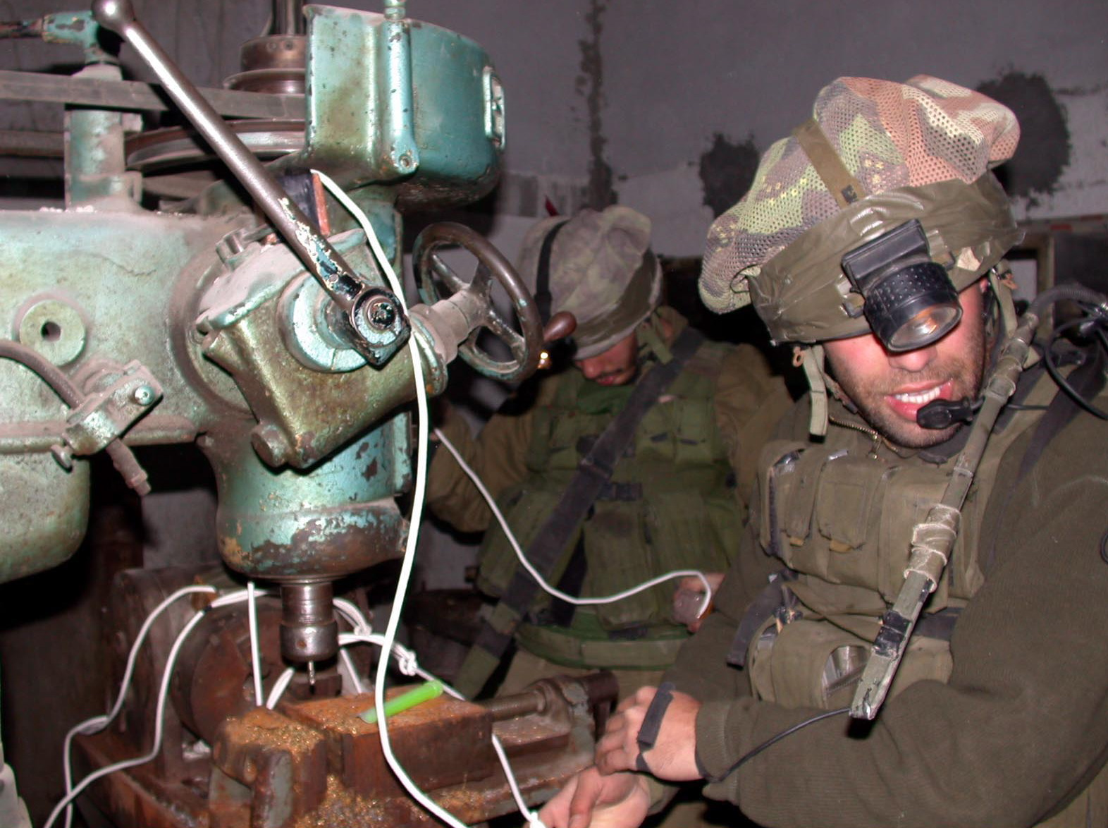 01/26/2003 In response to the firing of Qassam rockets towards Sderot, a city in the southern part of Israel, IDF forces held an operation in the village of Beit Hanun and raided dozens of buildings used to manufacture mortars and Qassam rockets.